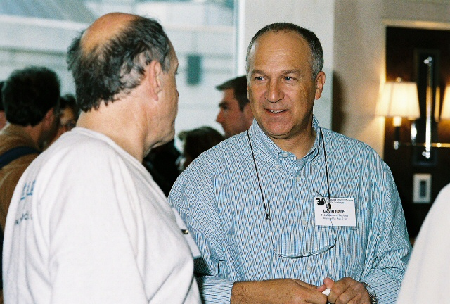 Professors David Harel and Carl Hewitt at the Federated Logic Conference